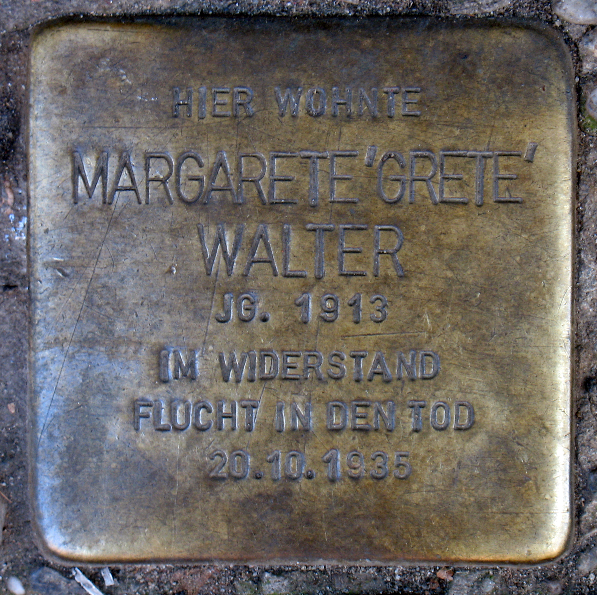 "Stolperstein" (stumbling block), Margarete Walter, Fuldastraße 12, Berlin-Neukölln, Germany